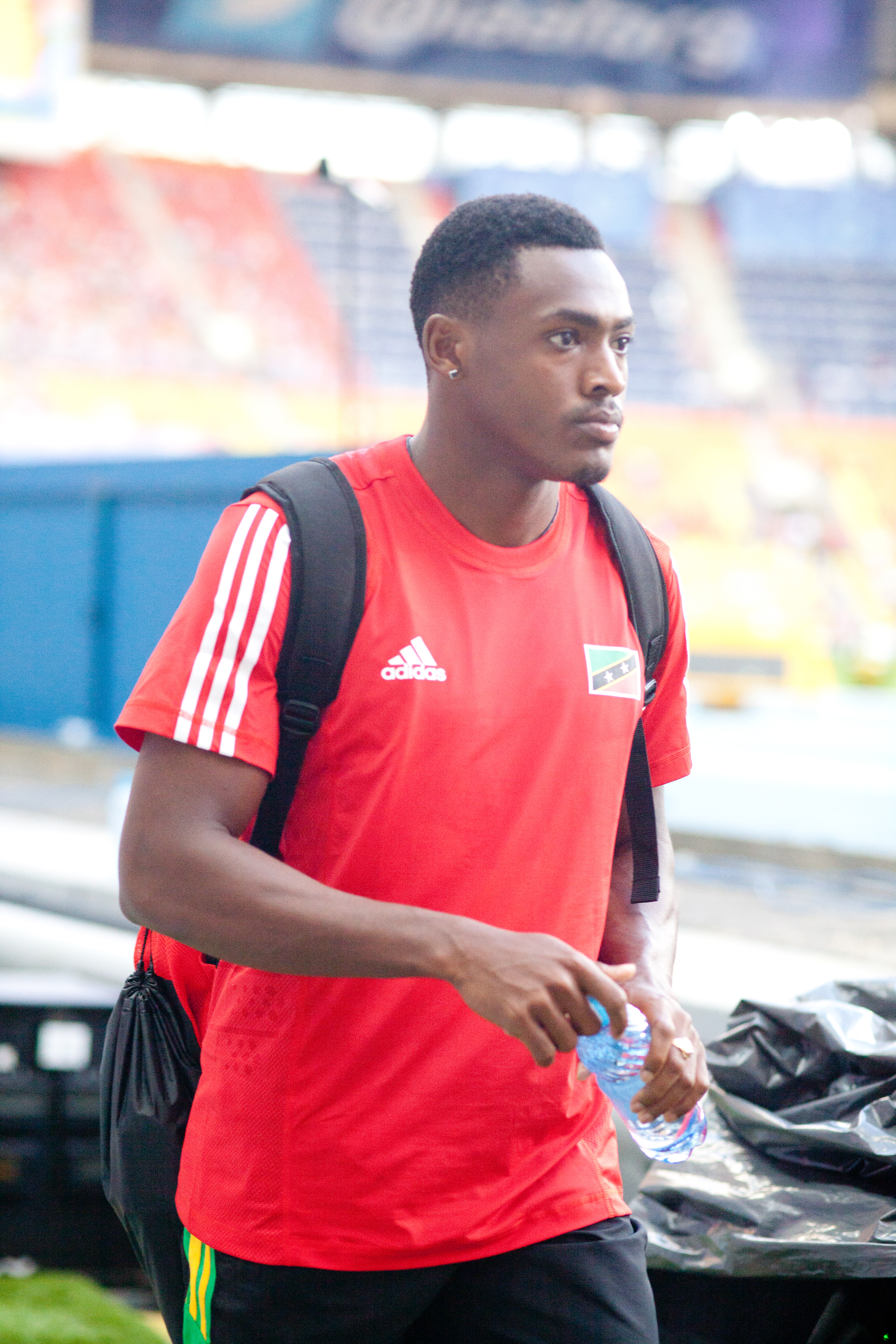 Jason Rogers during 2013 World Championships in Athletics in Moscow.